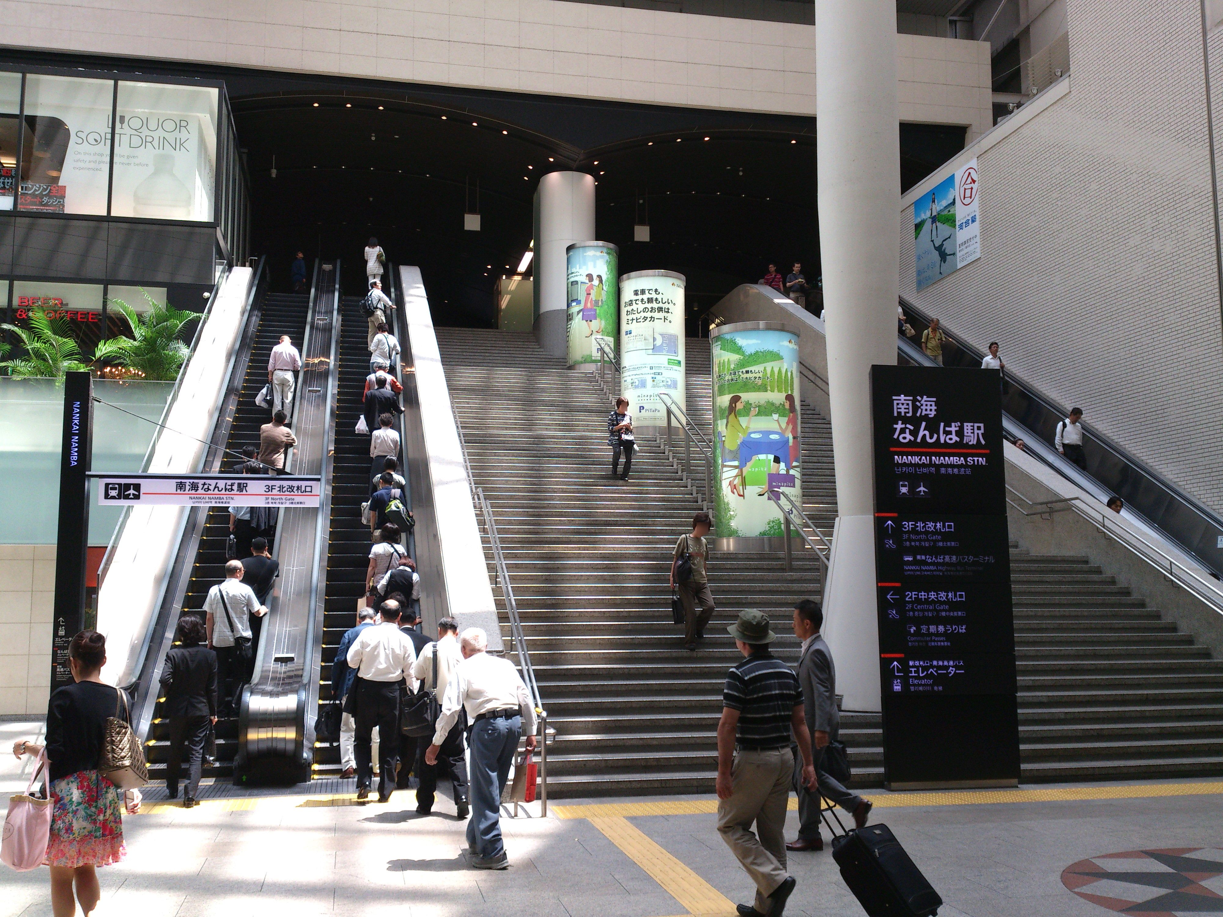 Nankai Namba Station north exit